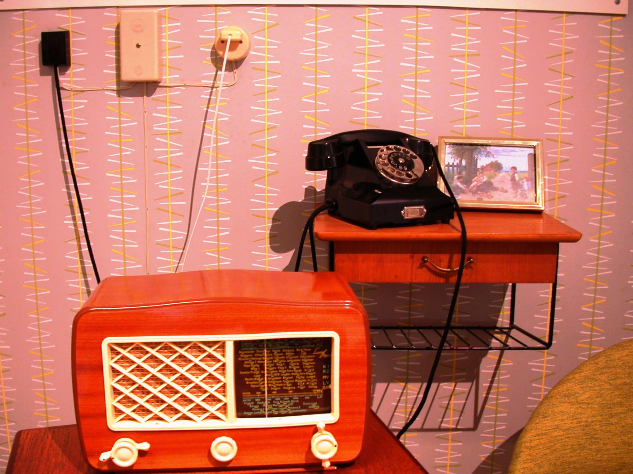 Swedish wire radio and phone setup. From left: black socket for the phone. Rectangular wire radio filter. White wire radio socket.